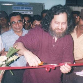 Richard Stallman inaugurating the GNU/Linux User Group Nixal, on February 19, 2003, at Netaji Subhash Engineering College, Kolkata, India